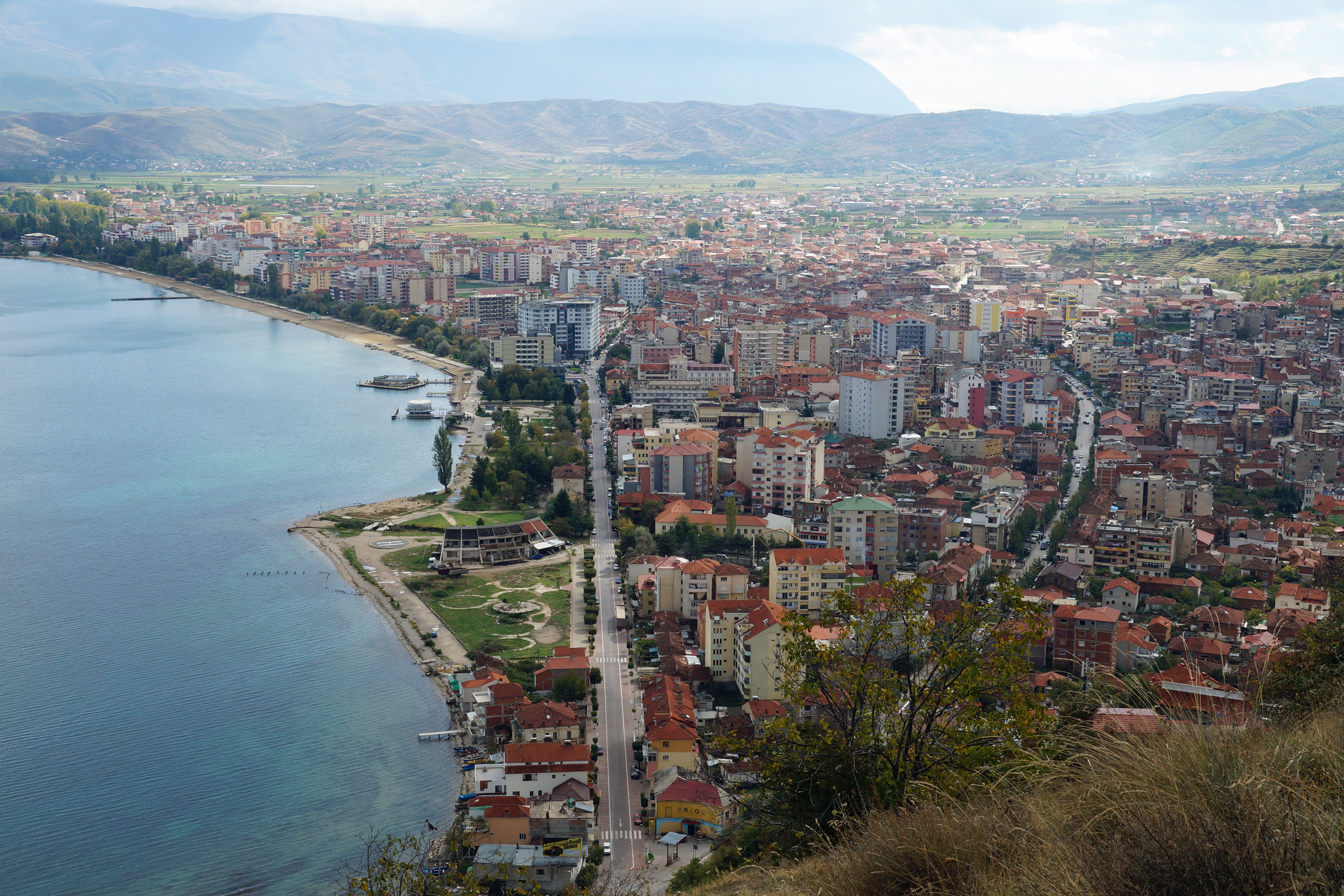 Pogradec, Albania, at Lake Ohrid seen from Kalaja hill.